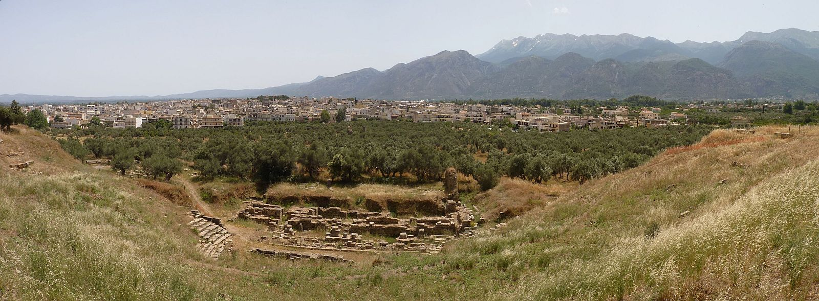 Sparta (Doric Greek: Σπάρτα, Spártā; Attic Greek: Σπάρτη, Spártē), or Lacedaemon, was a prominent city-state in ancient Greece, situated on the banks of the Eurotas River in Laconia, in south-eastern Peloponnese. You can use the images for free. But a link to - I would be happy :)